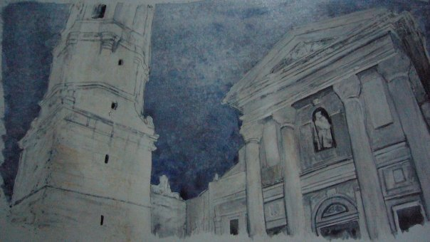 The Church of San Antoni and bell tower in Vilanova, water color painting by Brad Erickson.